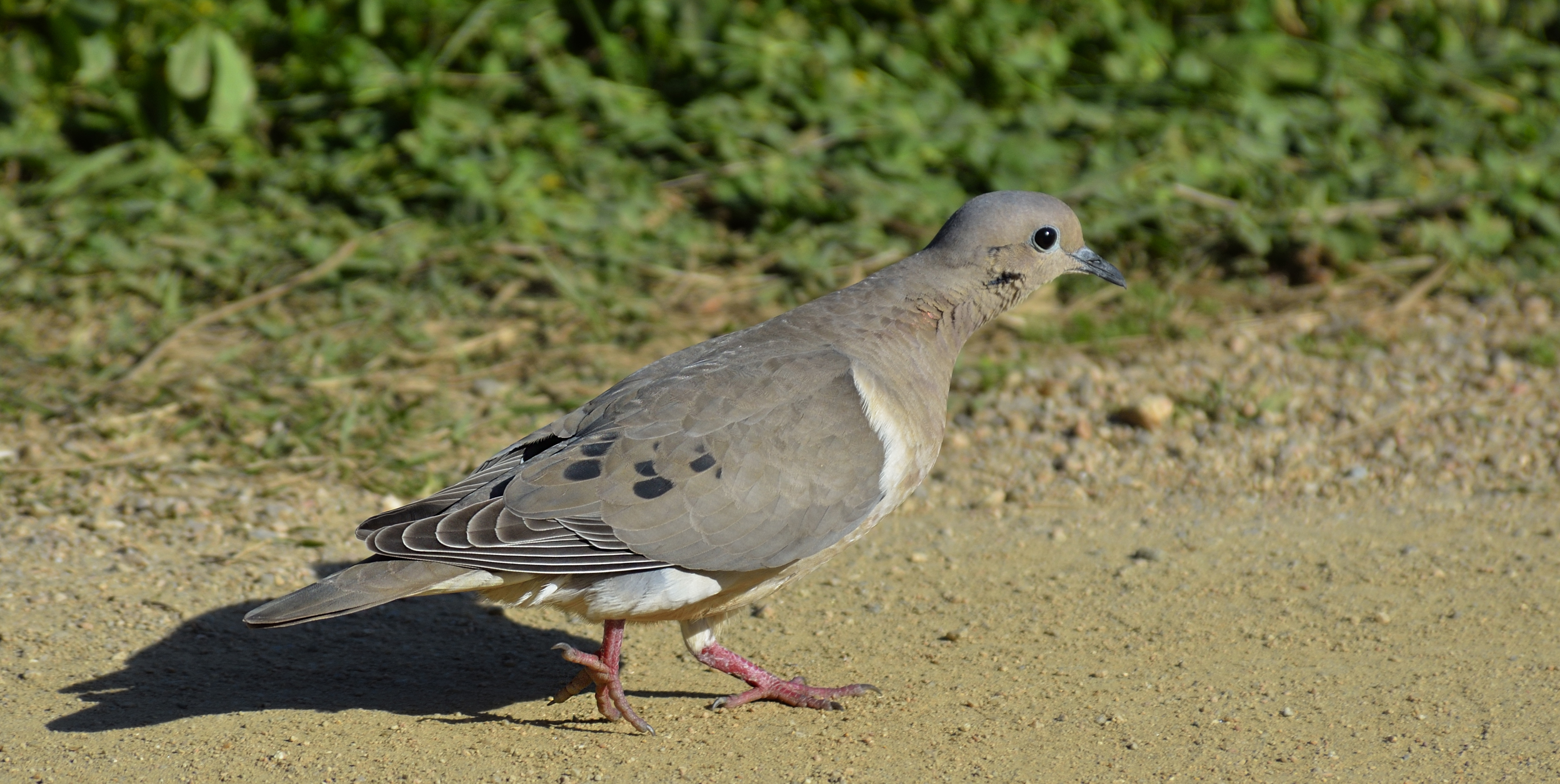 Eared Dove, Uruguay